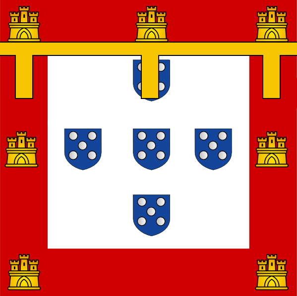 Ancient banner of arms of Heir of Portugal.